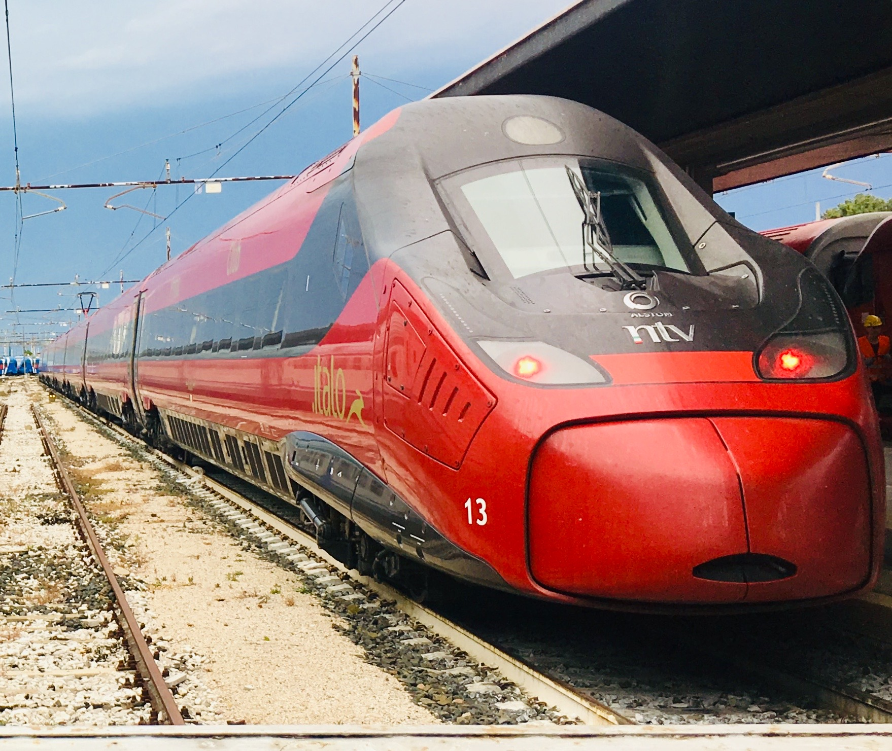 EVO Italo (NTV)